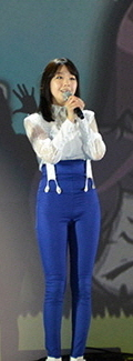 Girl's day at Nexon Maple Story 10th anniversary event, on May 19, 2013